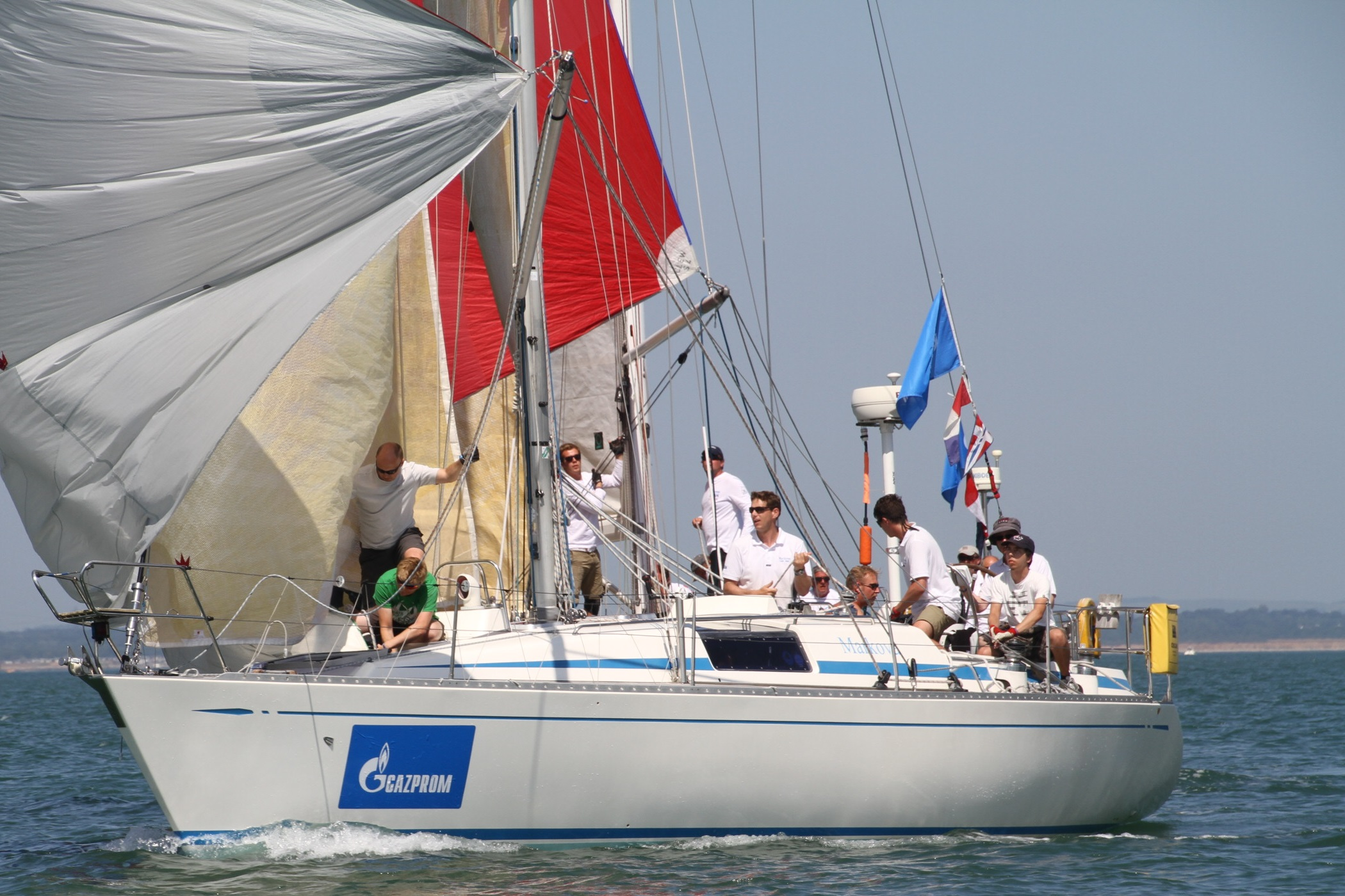 Swan 36 Frers GBR9909 Markova at the 2013 Swan Europeans in Cowes (GBR) held by the Royal Yacht Squadron